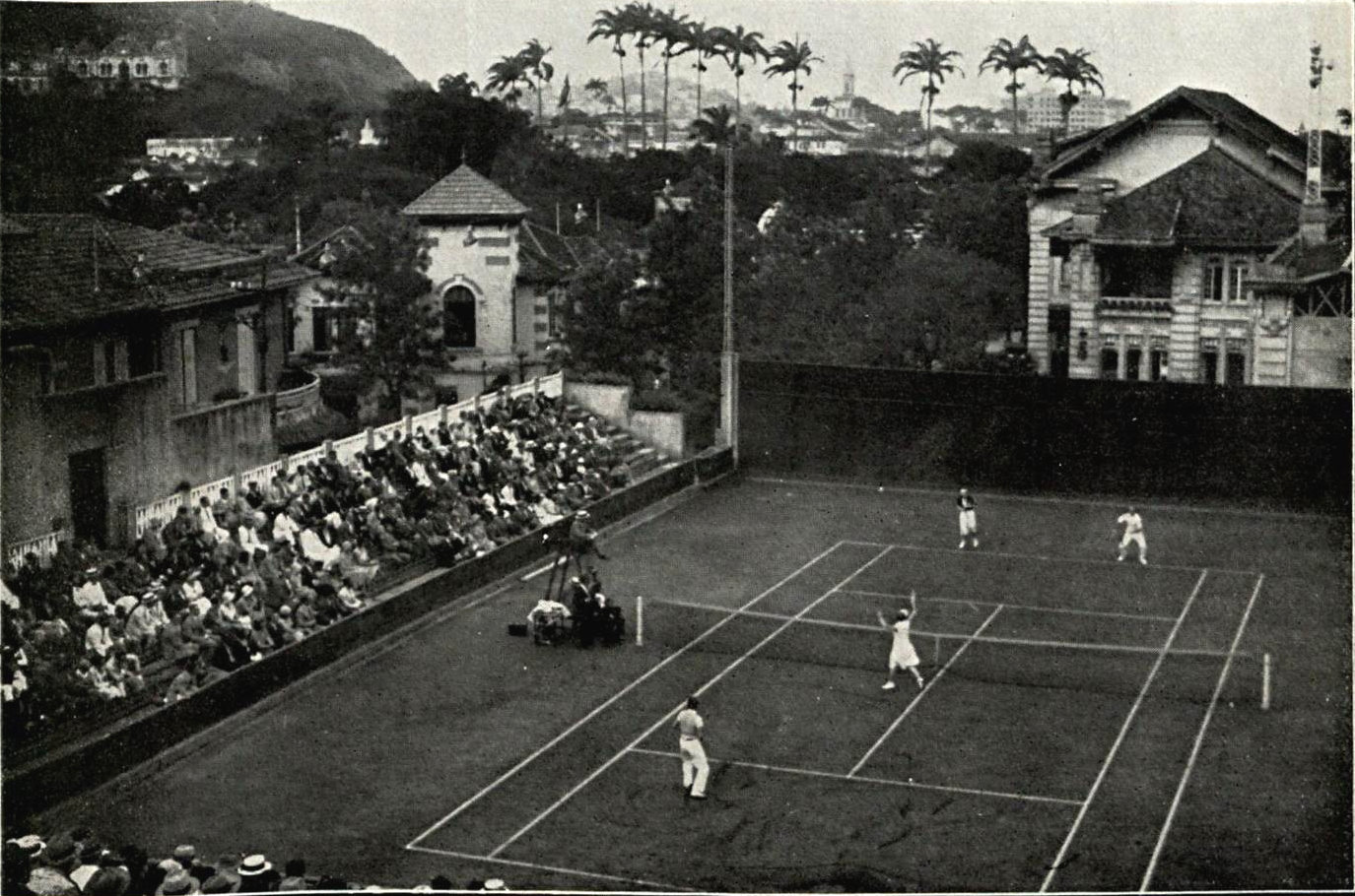 The tennis ground of the Fluminense Football Club in October 1931. The female players are probably Irmgard Rost (1909-1970), German tennis player, and Florence Teixeira (?-?), Brazilian tennis player.